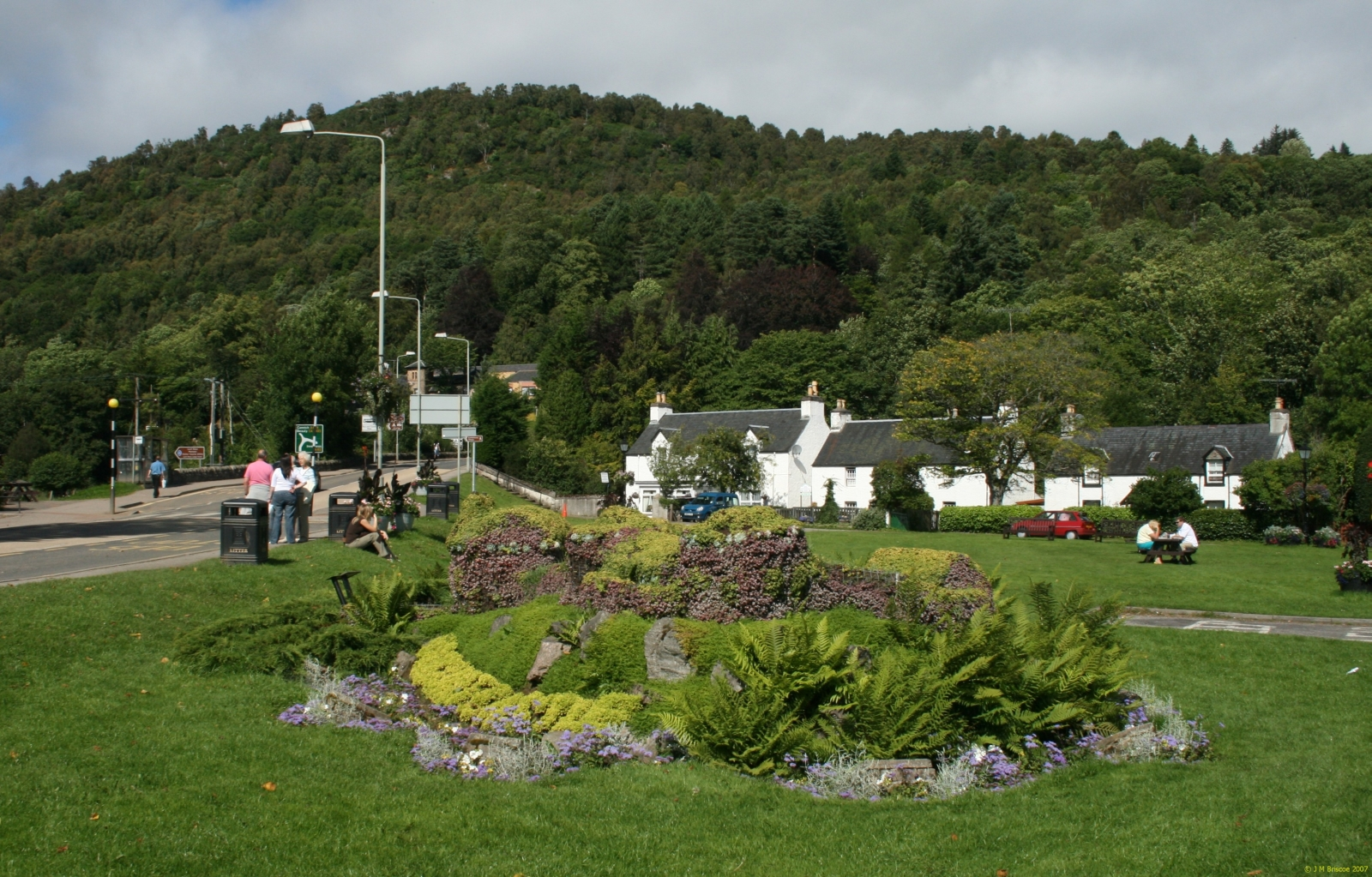 Drumnadrochit